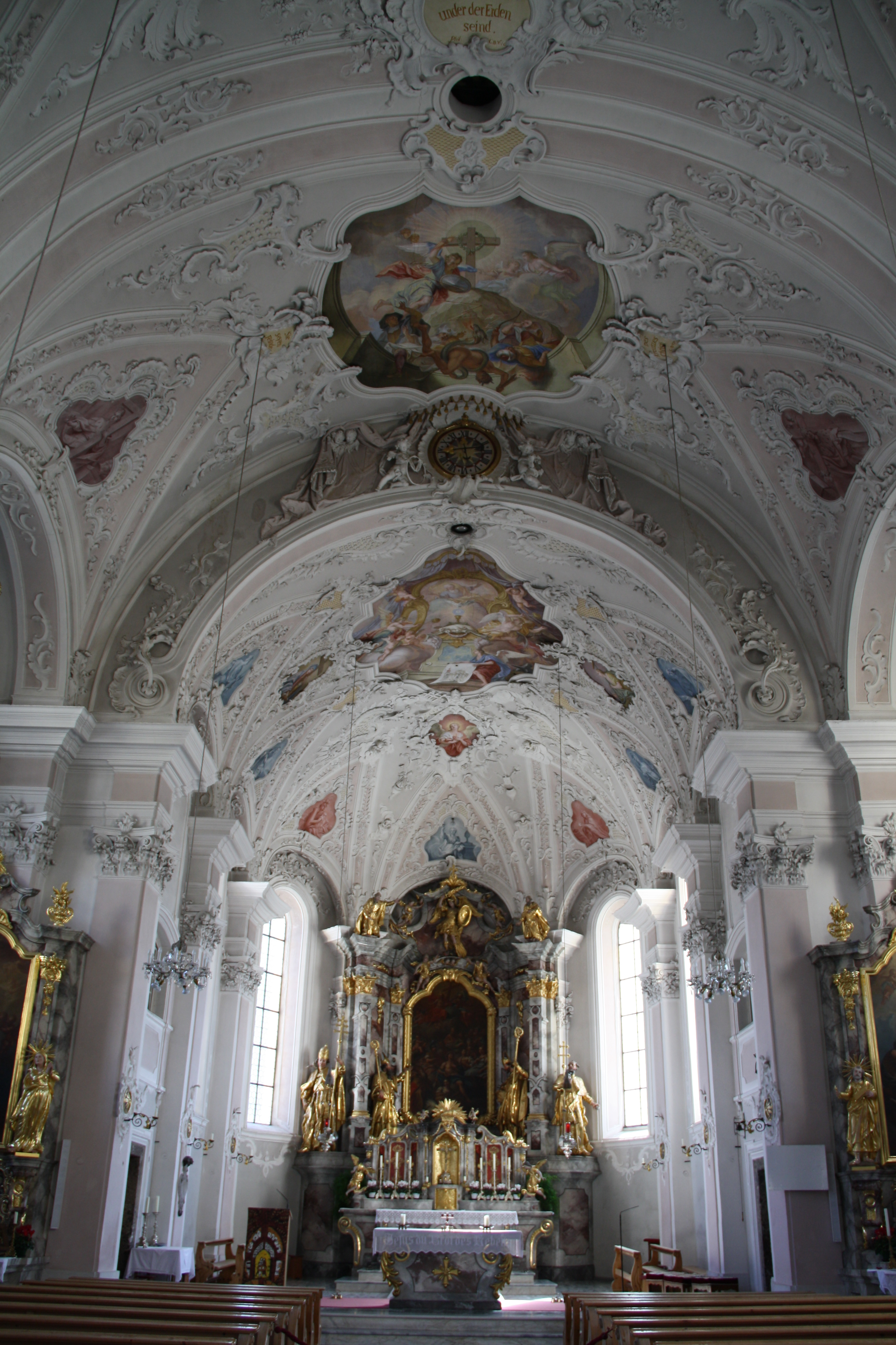 Austria, Tyrol (state), Fulpmes, Sankt Vitus. The nave and the high altar.